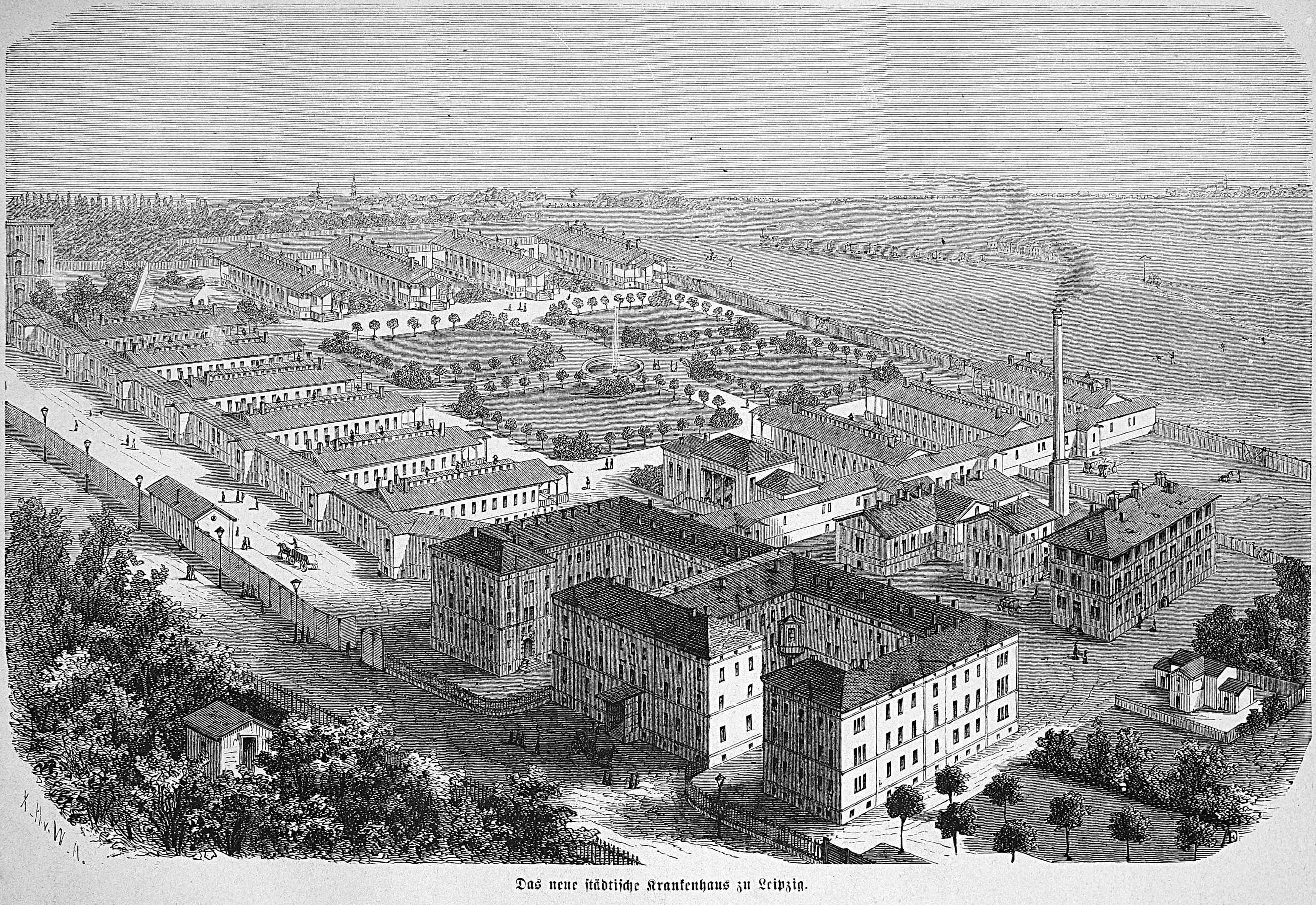 caption: "Das neue städtische Krankenhaus zu Leipzig."